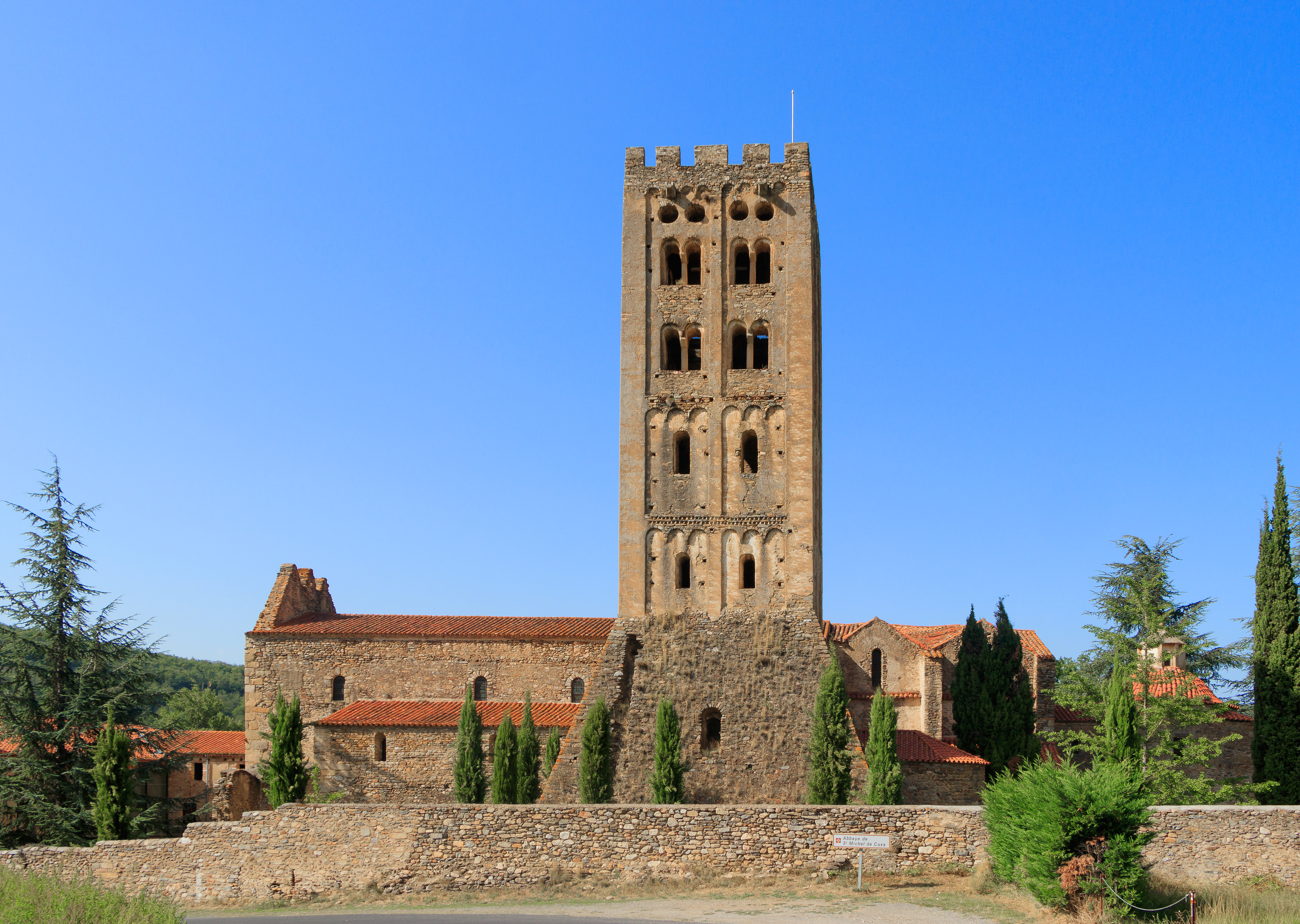 Abbey of Saint-Michel-de-Cuxa, Codalet, Pyrénées-Orientales department, France